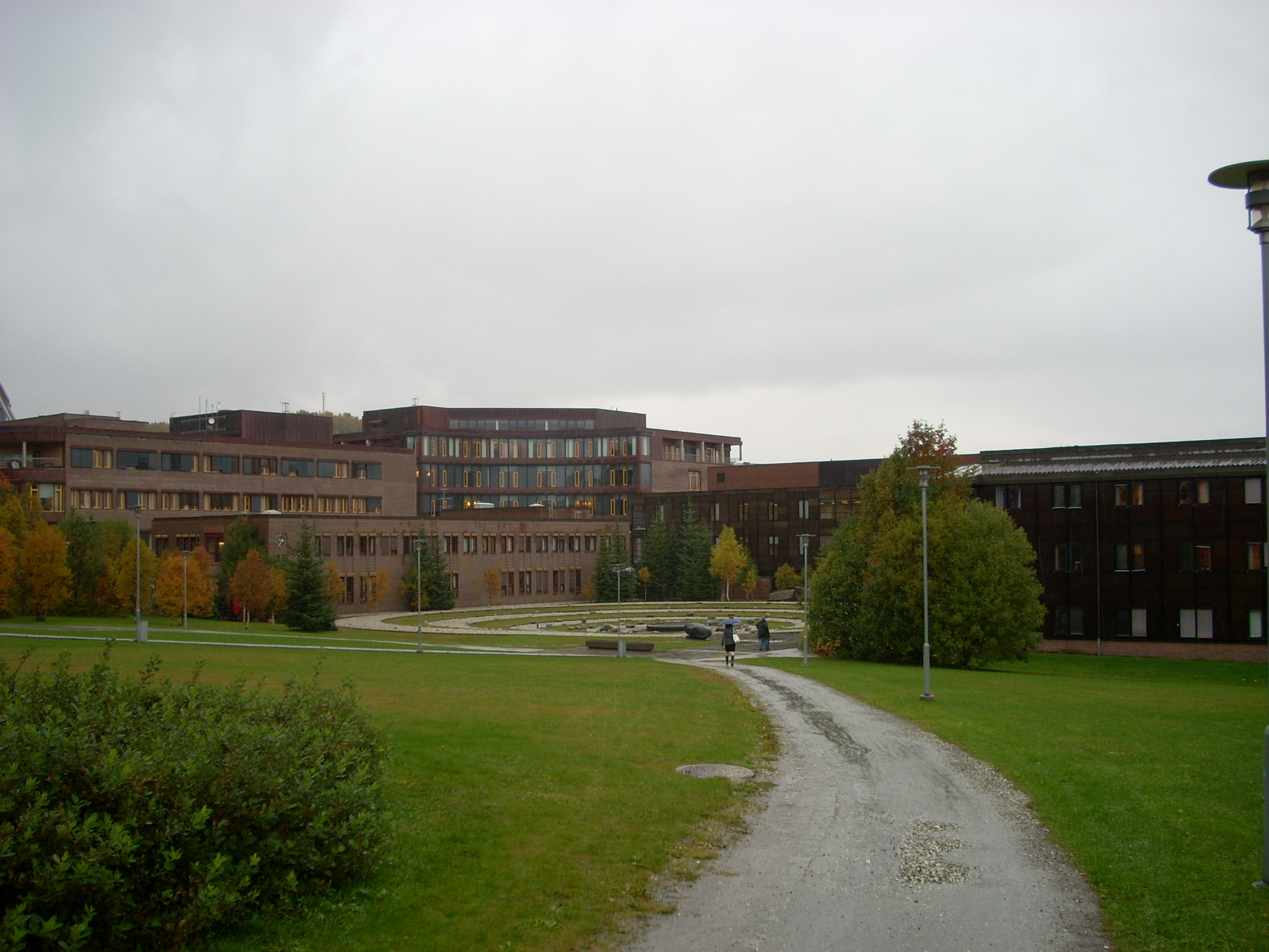 University of Tromsø campus in Breivika. Left to right: Theoretical Subjects building (Teorifagbygget), the State Archive in Tromsø, University Library, Faculty of Humanities